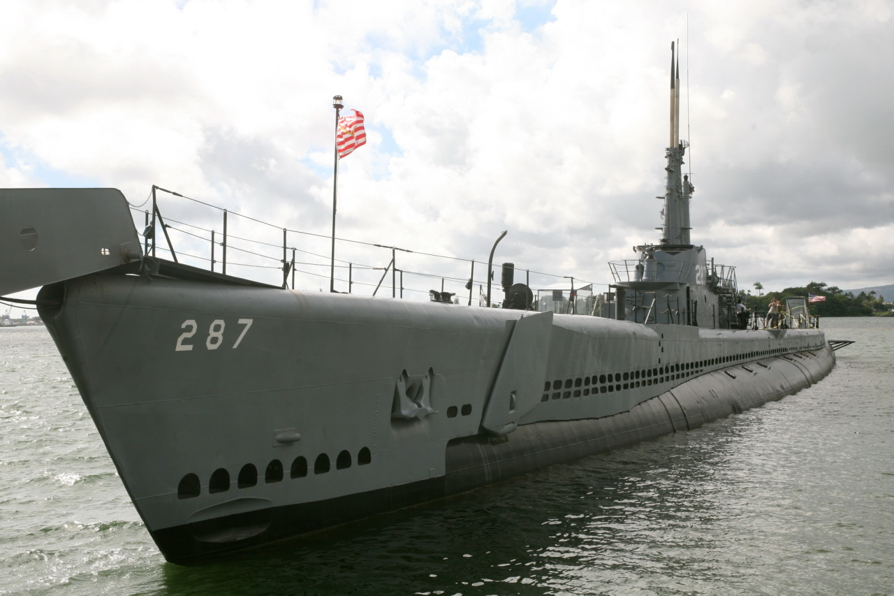 Launched on the first anniversary of the attack on Pearl Harbor, Bowfin completed nine war patrols in two years of wartime duty. One of the top-scoring U.S. submarines of World War II, Bowfin is credited with sinking 16 Japanese vessels with a total tonnage of 67,882 tons. On a noteworthy patrol in November 1943, Bowfin sank 12 vessels, only five of which were officially credited to the boat. Rear Admiral Ralph W. Christie, Commander of the U.S. Submarine Force, Southwest Pacific, lauded Bowfin's crew's achievement. "They fought the war from the beginning to the end of the patrol." In further recognition, Bowfin was awarded the Presidential Unit Citation for this patrol.